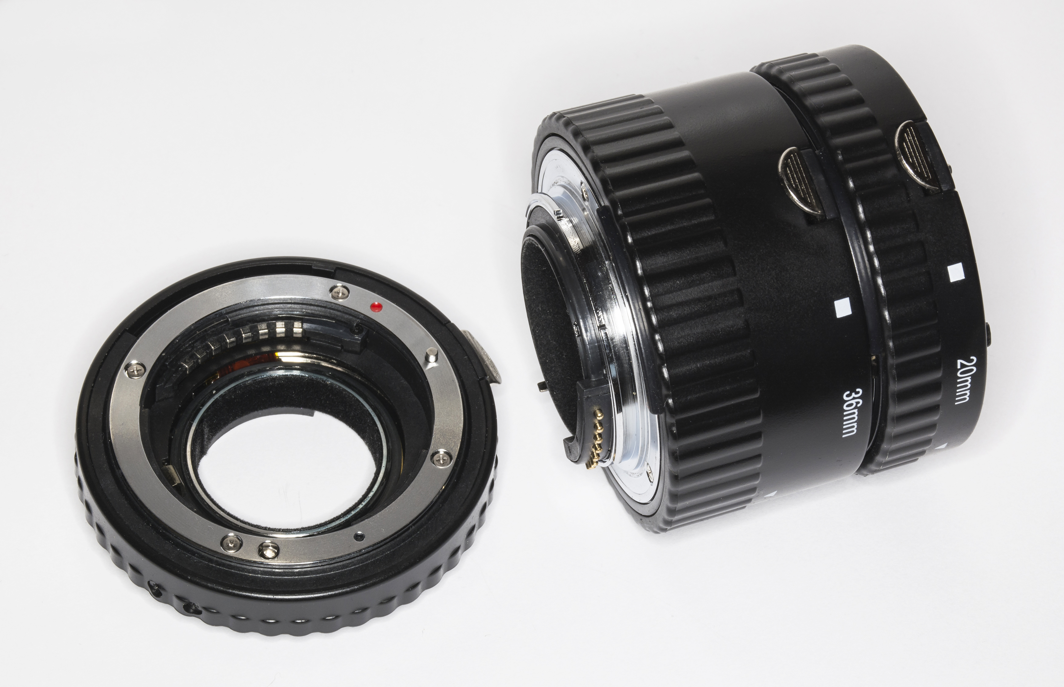 Extension tube for Nikon